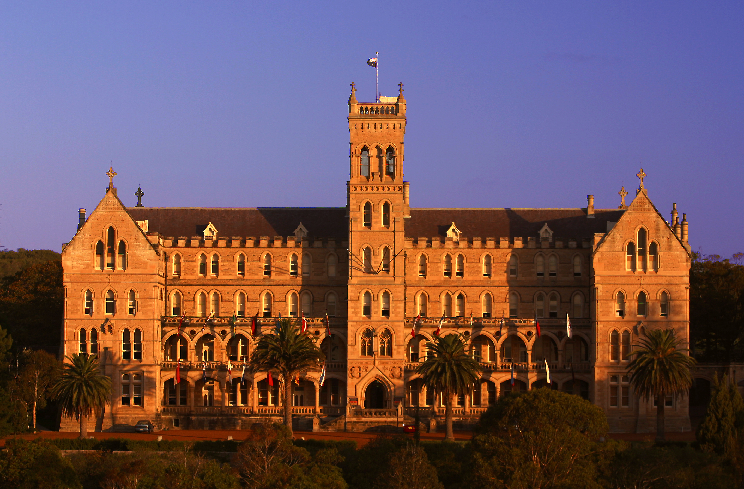 Closed St Patrick's Seminary in Sydney